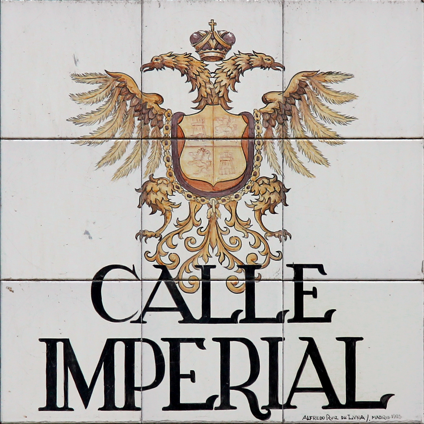 Sign of Calle Imperial (street) in Madrid (Spain).